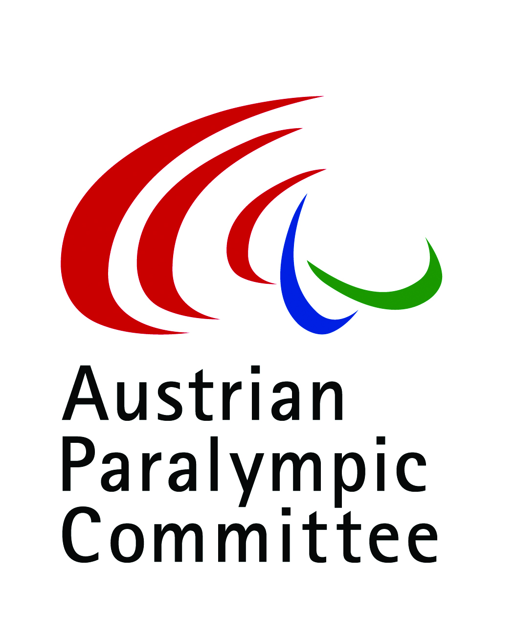 NPC Austria